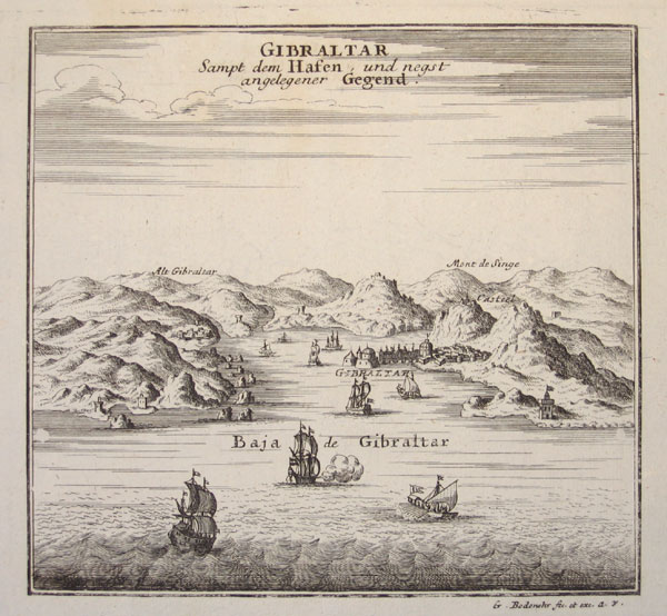 Gibraltar harbour antique engraving by Gabriel Bodenehr, c.1704.